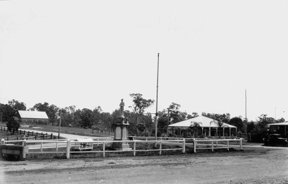 Intersection of Moggill Road and Brookfield Road, Kenmore, Brisbane, 1925. Photograph shows a war memorial and flag pole in the centre of the intersection, which is fenced with a post and rail fence. The roads are unsealed. There is a church in the background on the left and a homestead on the right.